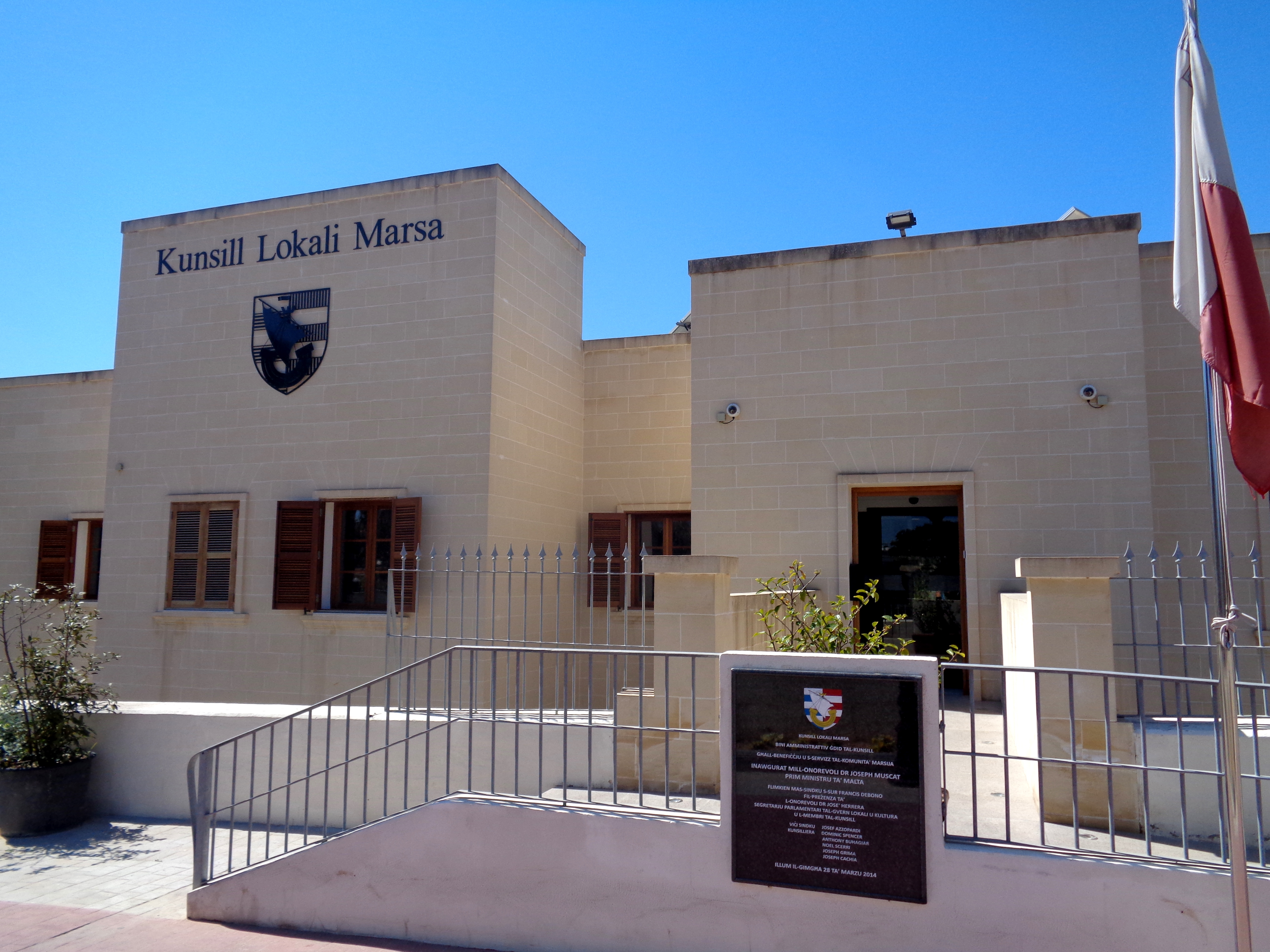 Marsa Local Council Malti: Kunsill Lokali Marsa